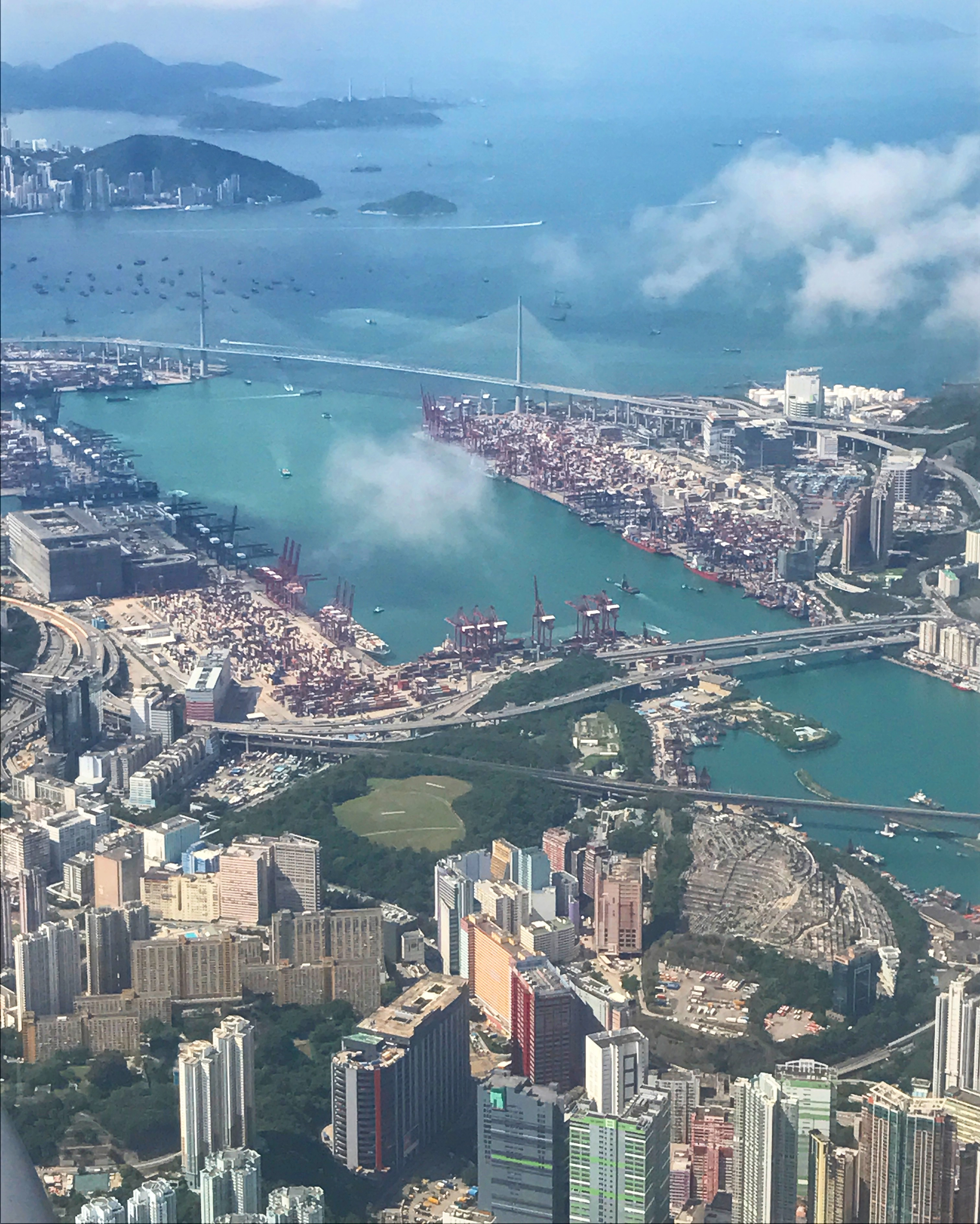 Kwai Tsing Container Terminals aerial view